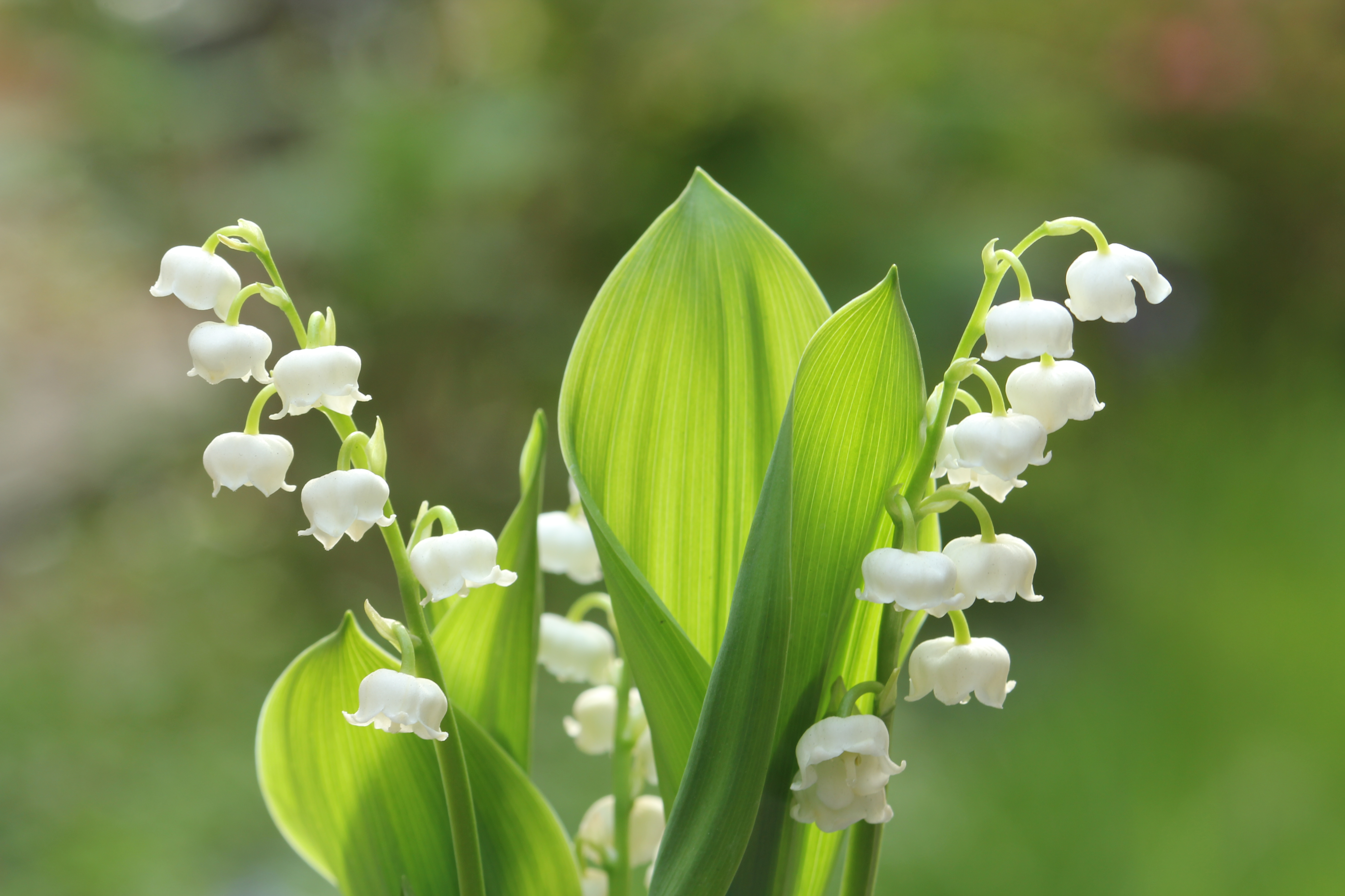 Convallaria majalis